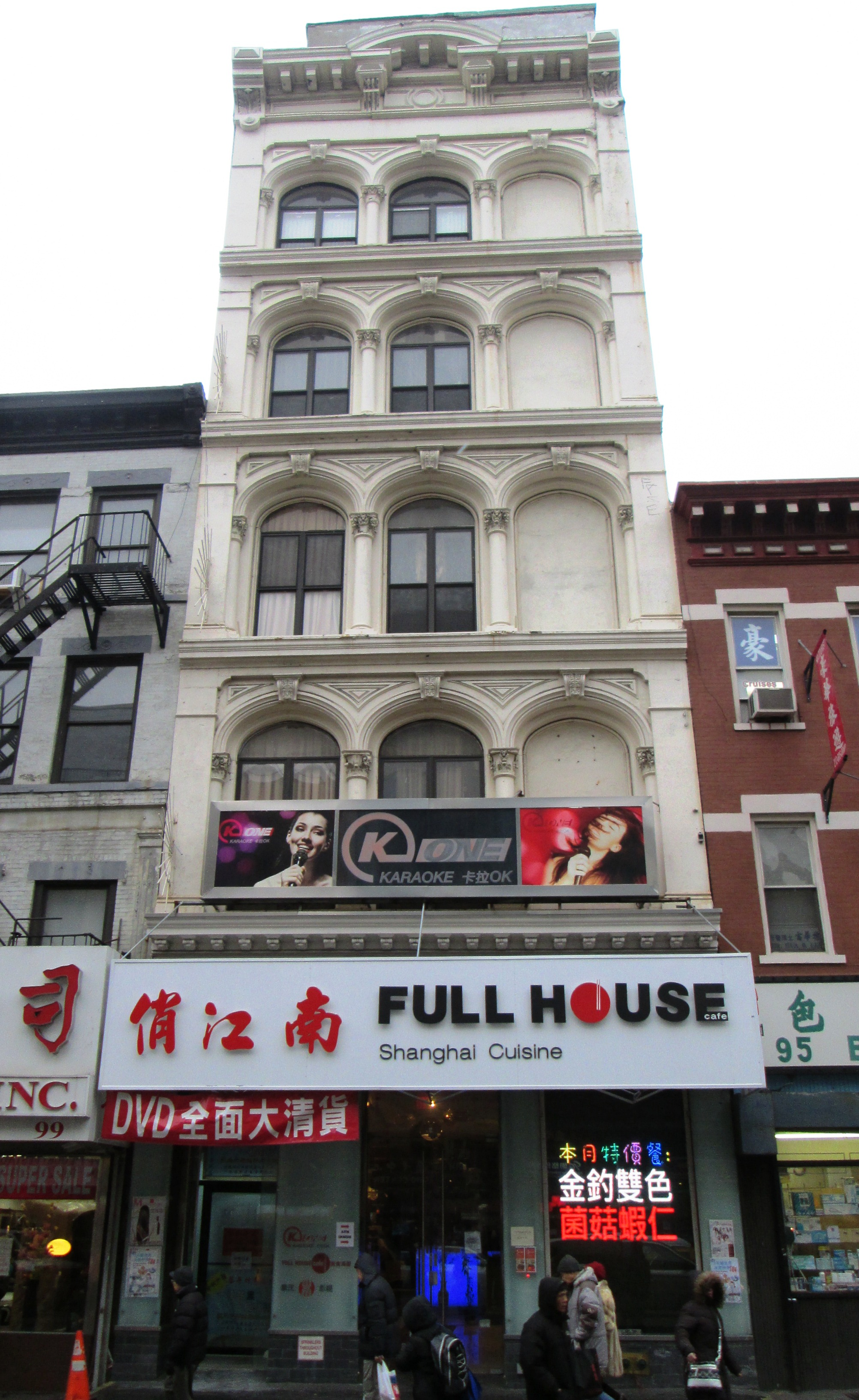 The building at 97 Bowery between Hester and Grand Streets in the Bowery neighborhood of Manhattan, New York City was built in 1869 and was designed by Peter L.P. Tostevin in the early Italianate style. It was built for John P. Jube & Co, a hardware and carriage supply business, which occupied it until 1935. It was designated a NYC landmark in 2010. (Source: NYCLPC Designation Report)